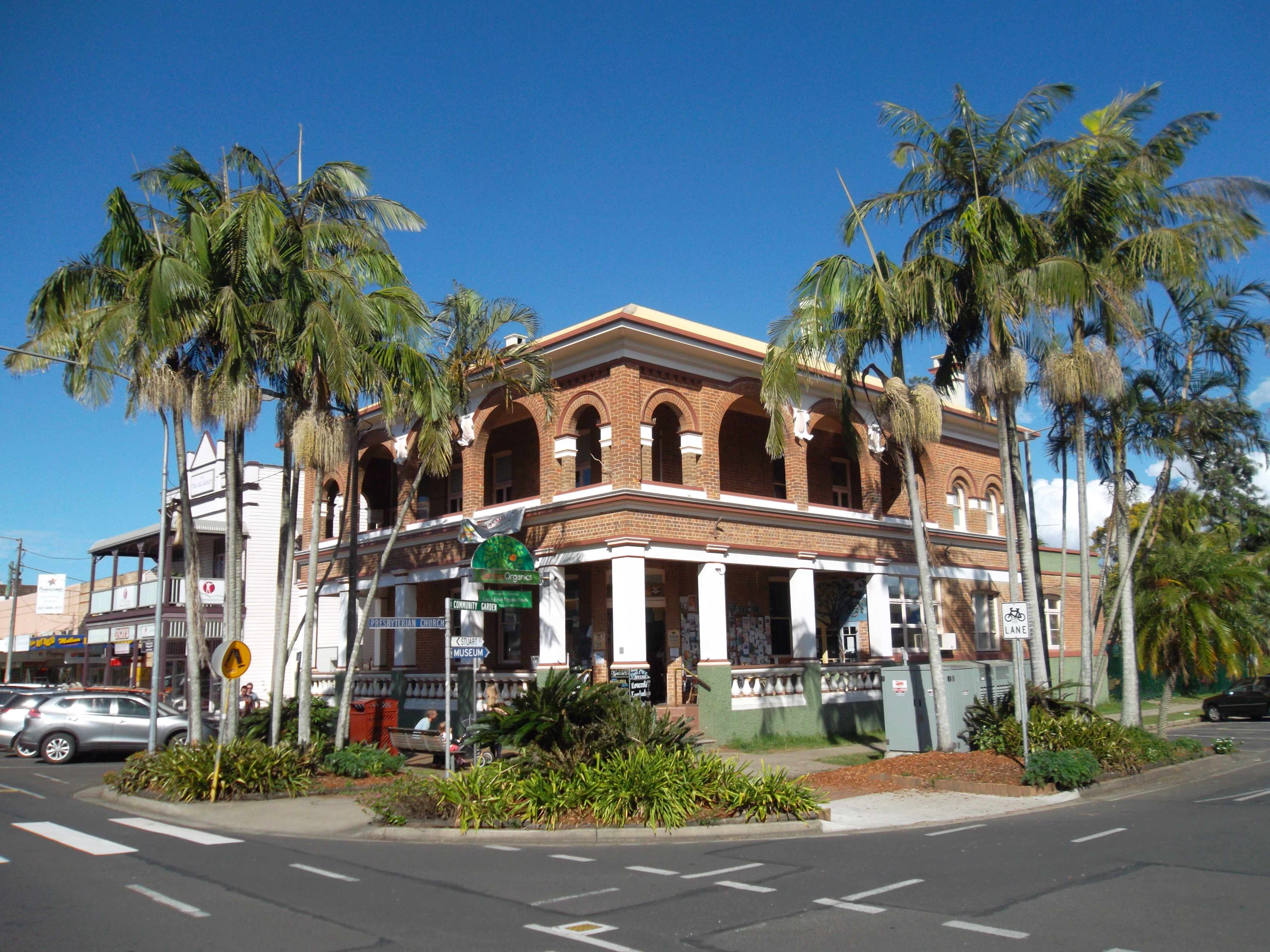 The old NSW Bank building, Mullumbimby, NSW. The building is on the Southwest corner of 51 Burringbar and Stuart Streets.